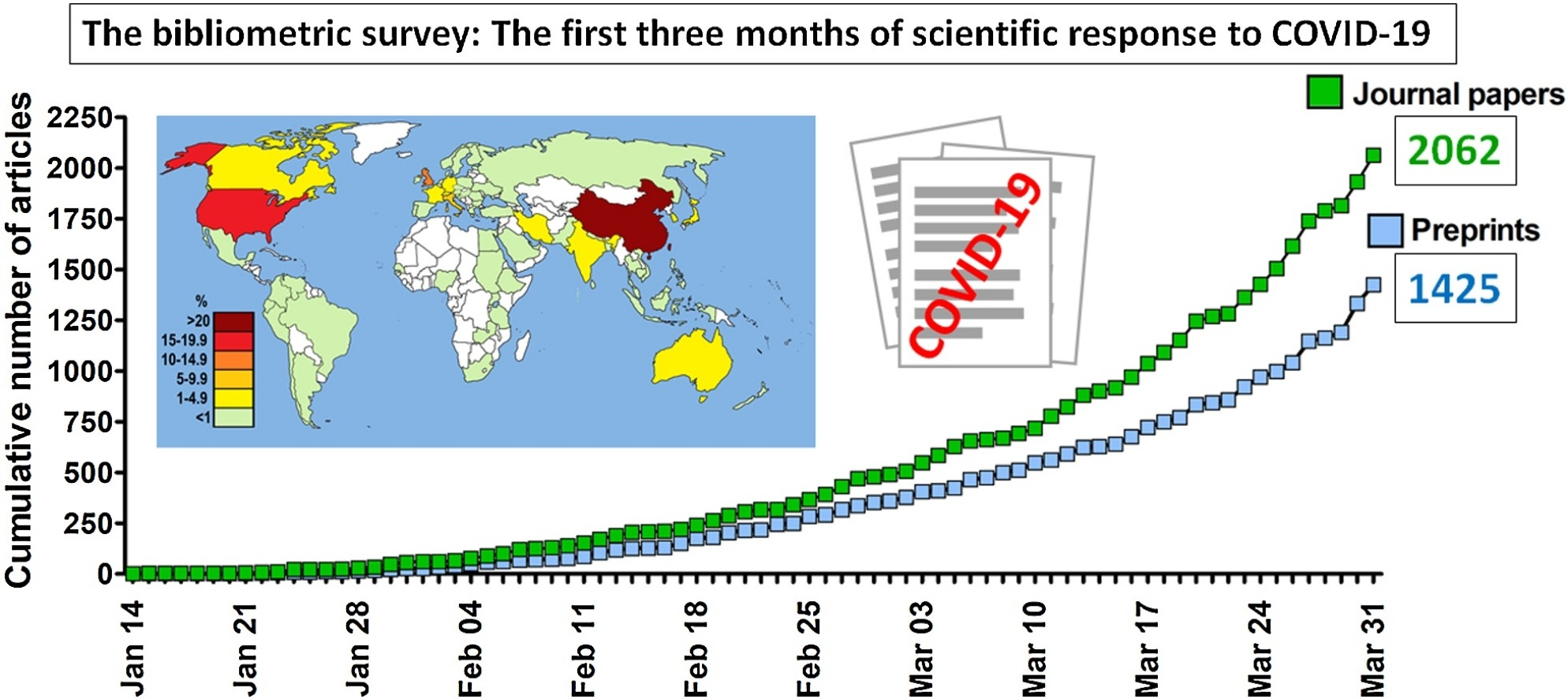 Overview of research publications on the COVID-19 outbreak during the first three months of 2020.